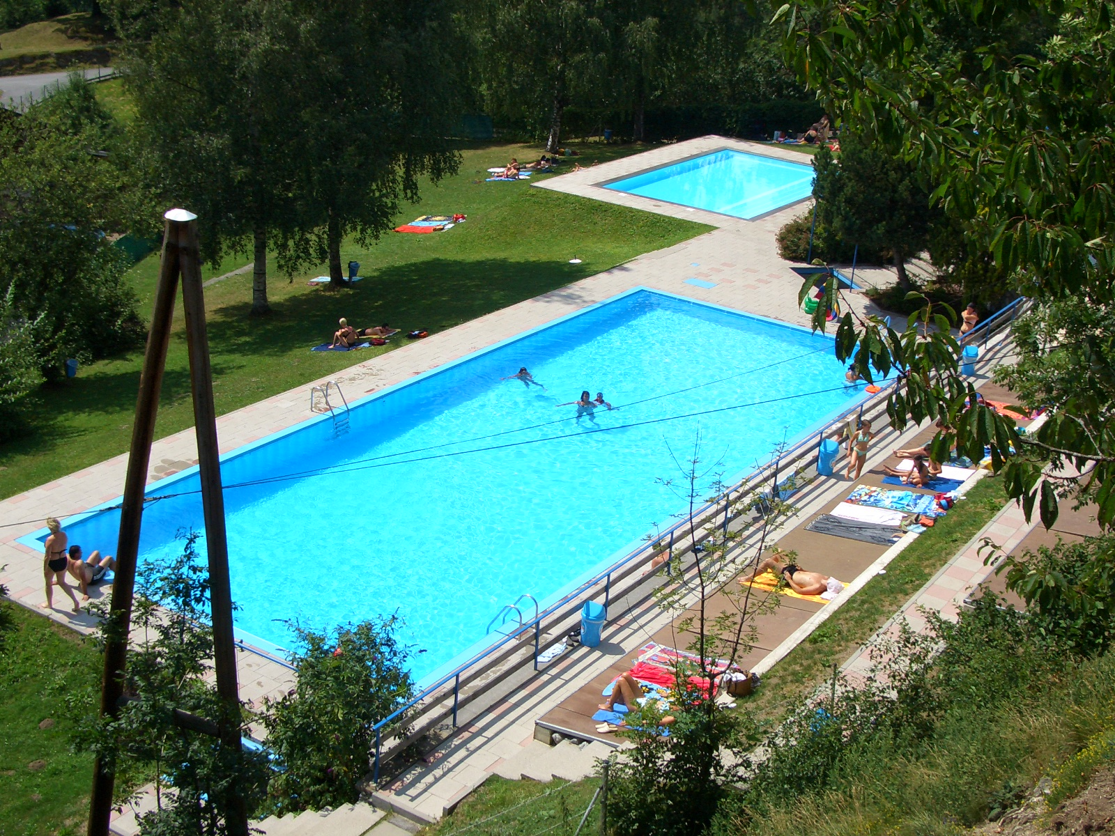 Public pool of Grins, Tyrol, Austria